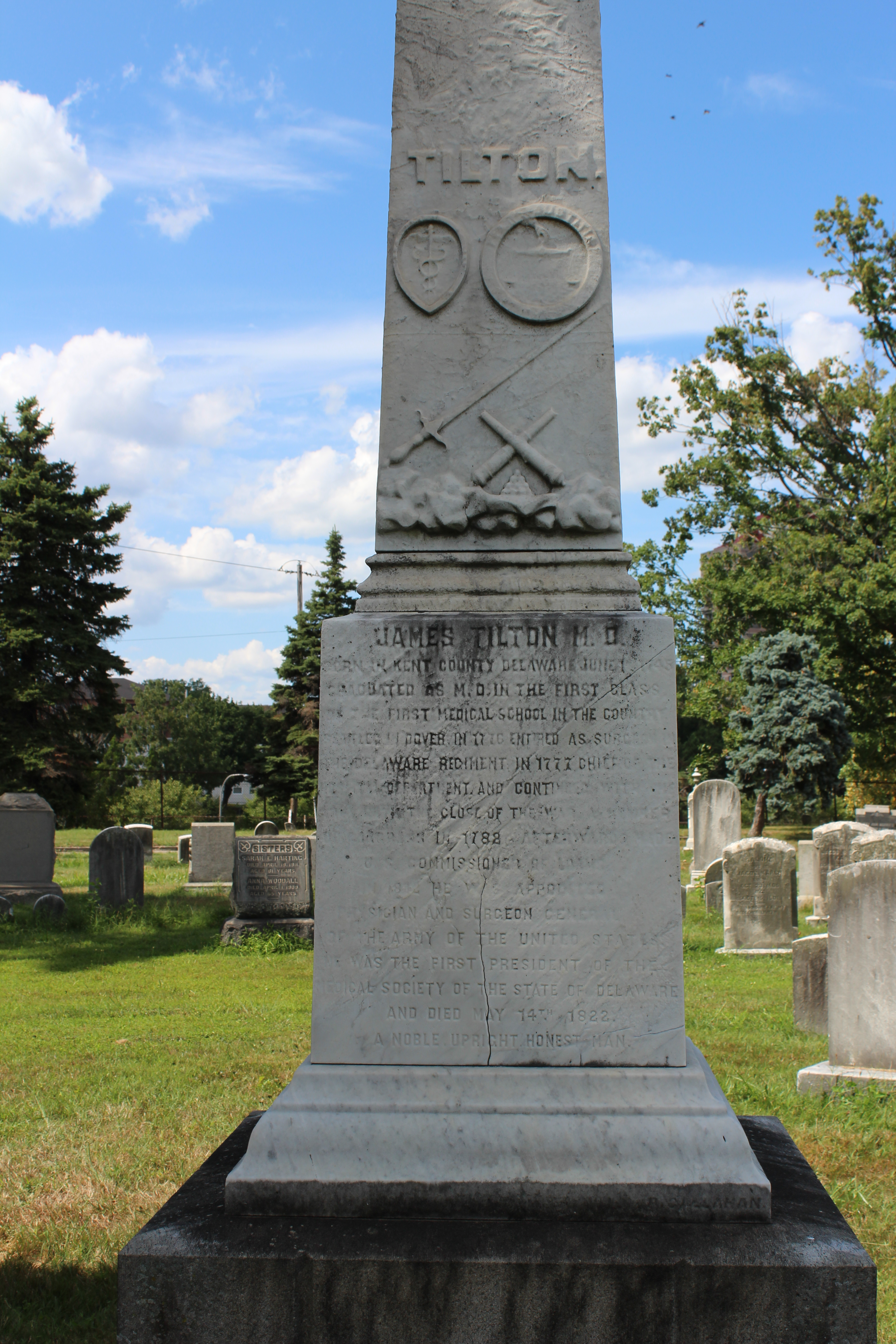 James Tilton Memorial at Wilmington and Brandywine Cemetery. Photo taken August 2019.